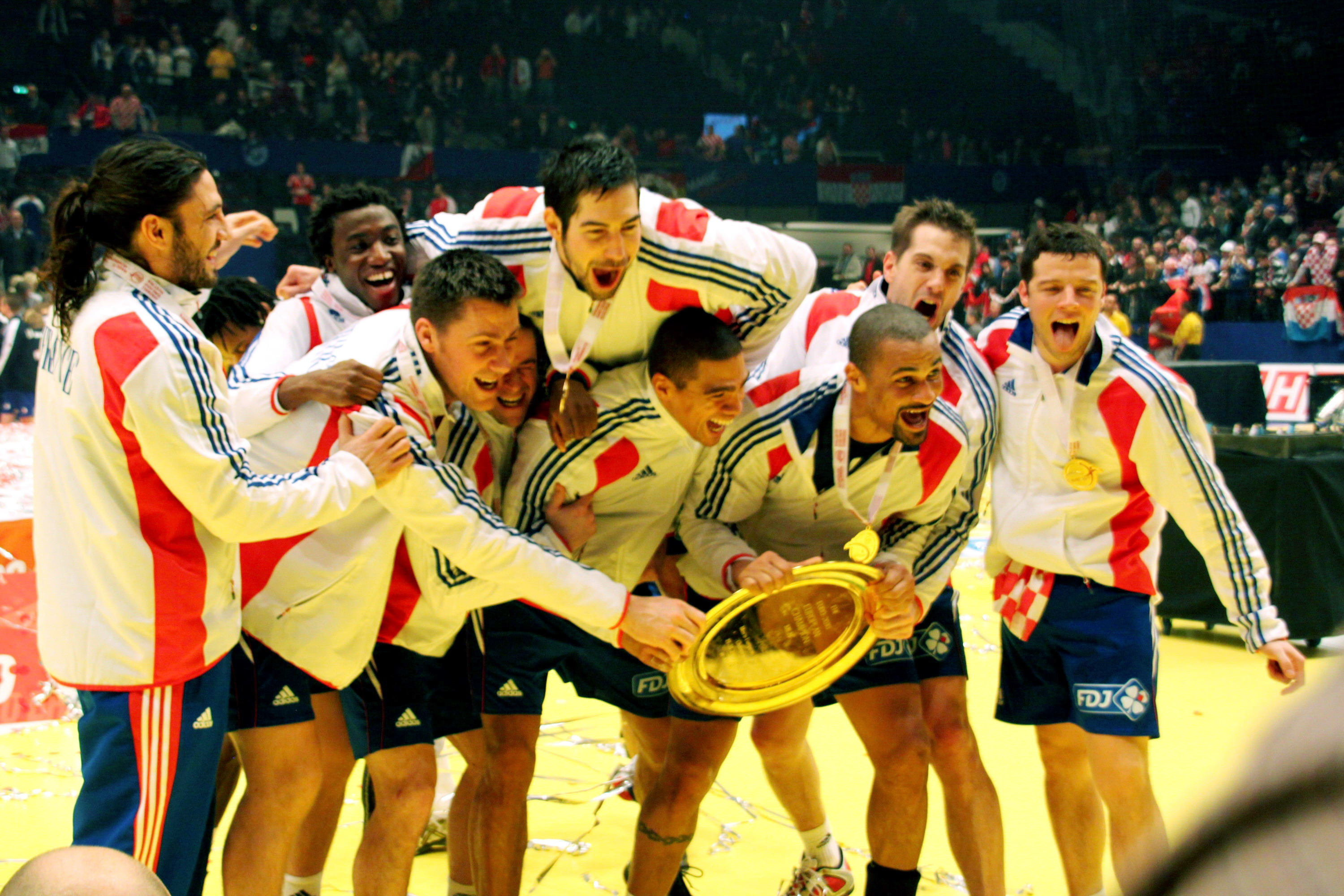 The players of the France national handball team are jubilant about the first place in the 2010 European Men's Handball Championship